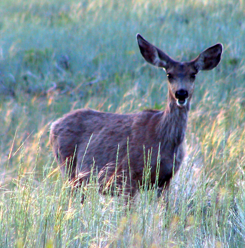 Mule deer, in Bryce Canyon NP, Utah, USA